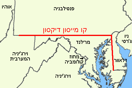 Extent of the original Mason-Dixon line.